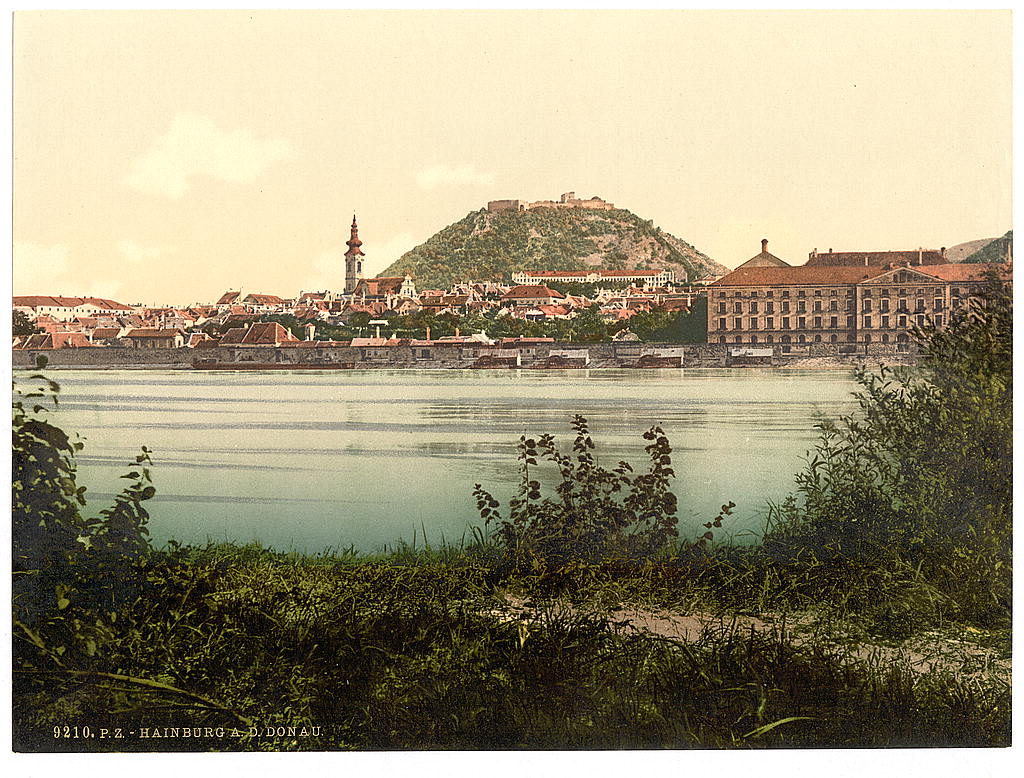 view on Hainburg an der Donau, Austria